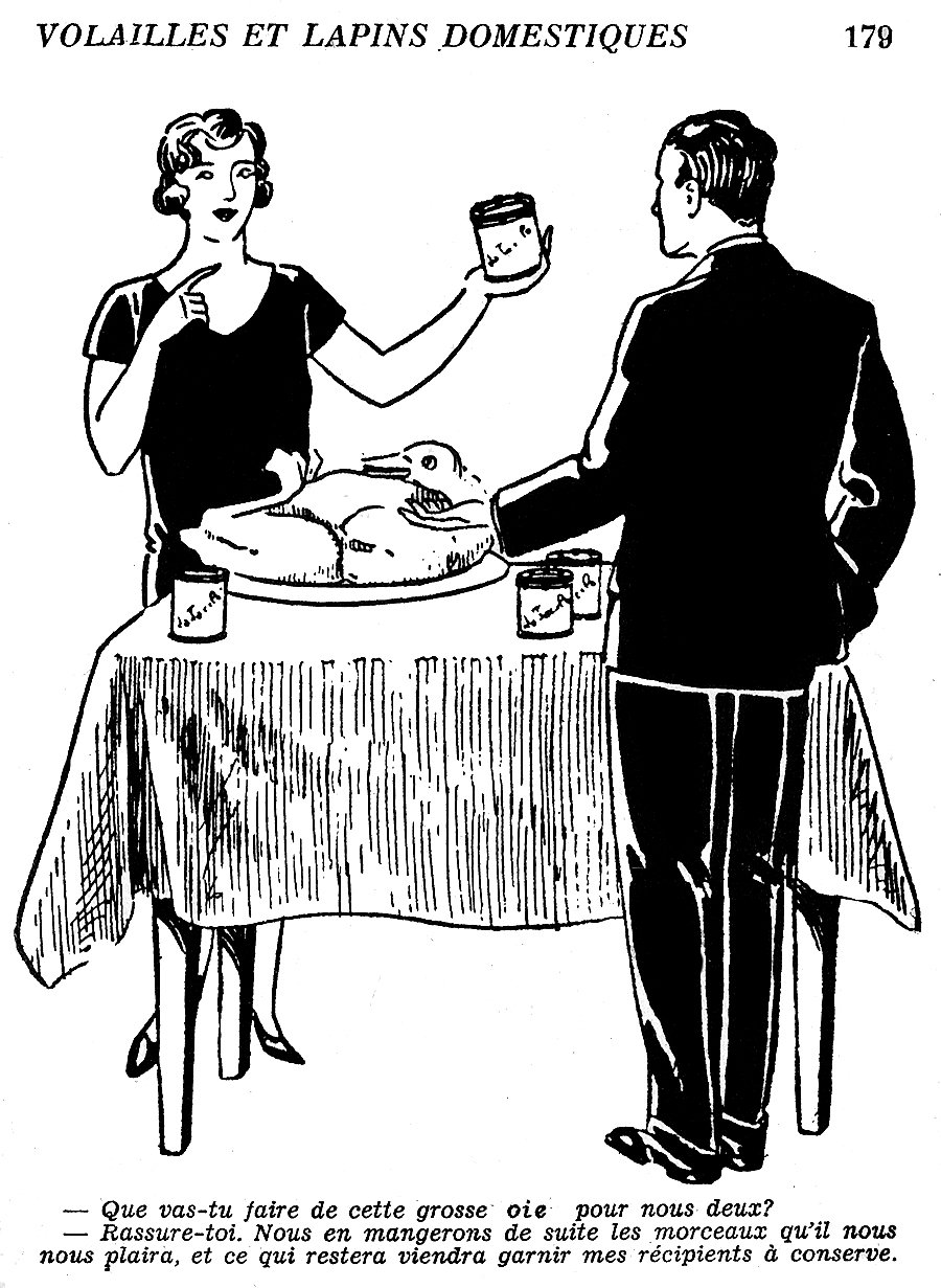 Illustrated in Paul Mougin, "Manufacturing family of all jams and preserves to everyone", 4th ed., Nd (post 1929, 1930)